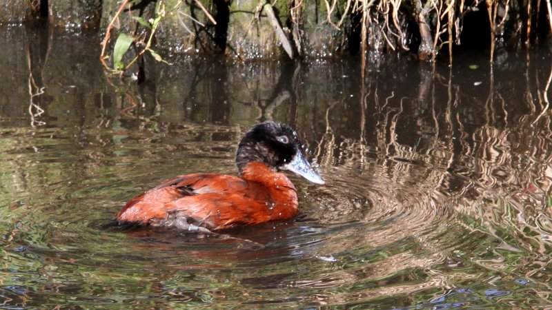 Maccoa Duck (Oxyura maccoa) This image was created by Ken Billington. If you are interested in a high resolution copy of this image, please contact the author Ken Billington in order to negotiate conditions of use. Do not copy this image illegally by ignoring the terms of the license below, as it is not in the public domain. If you would like special permission to use, license, or purchase the image please contact me to negotiate terms. More free images can be found on Ken Billington's Bird & Wildlife Photography.